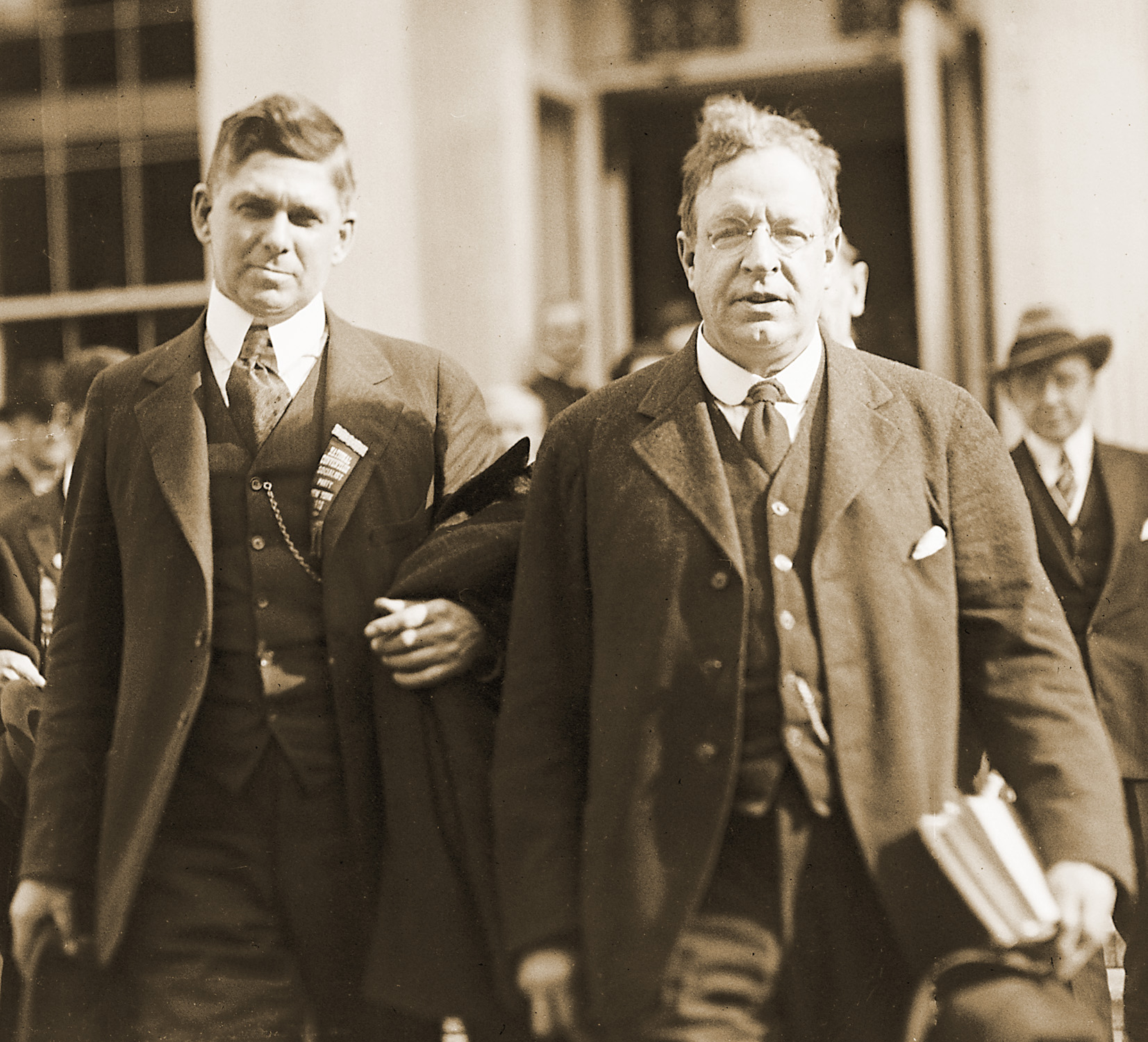 Socialist leaders George E. Roewer, Jr. and Seymour Stedman leaving Atlanta Federal Penitentiary, May 1920, where they visited imprisoned Socialist Party Presidential nominee Eugene V. Debs.